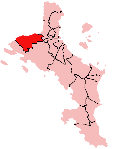 Map of Mahe Island, Seychelles showing Belombre District; created with the GIMP. Made by User:Acntx.